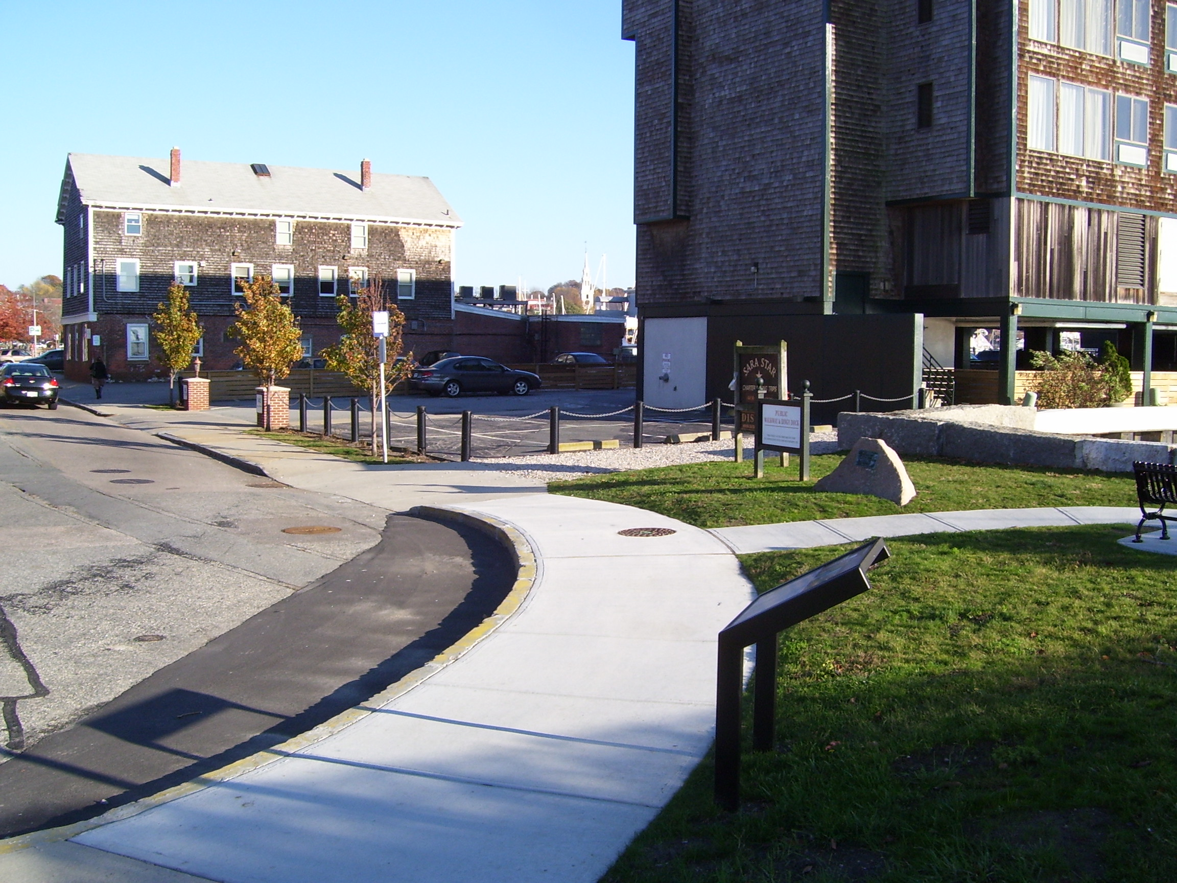 My 2008 photo of Gravelly Point off of Long Wharf in Newport, Rhode Island.